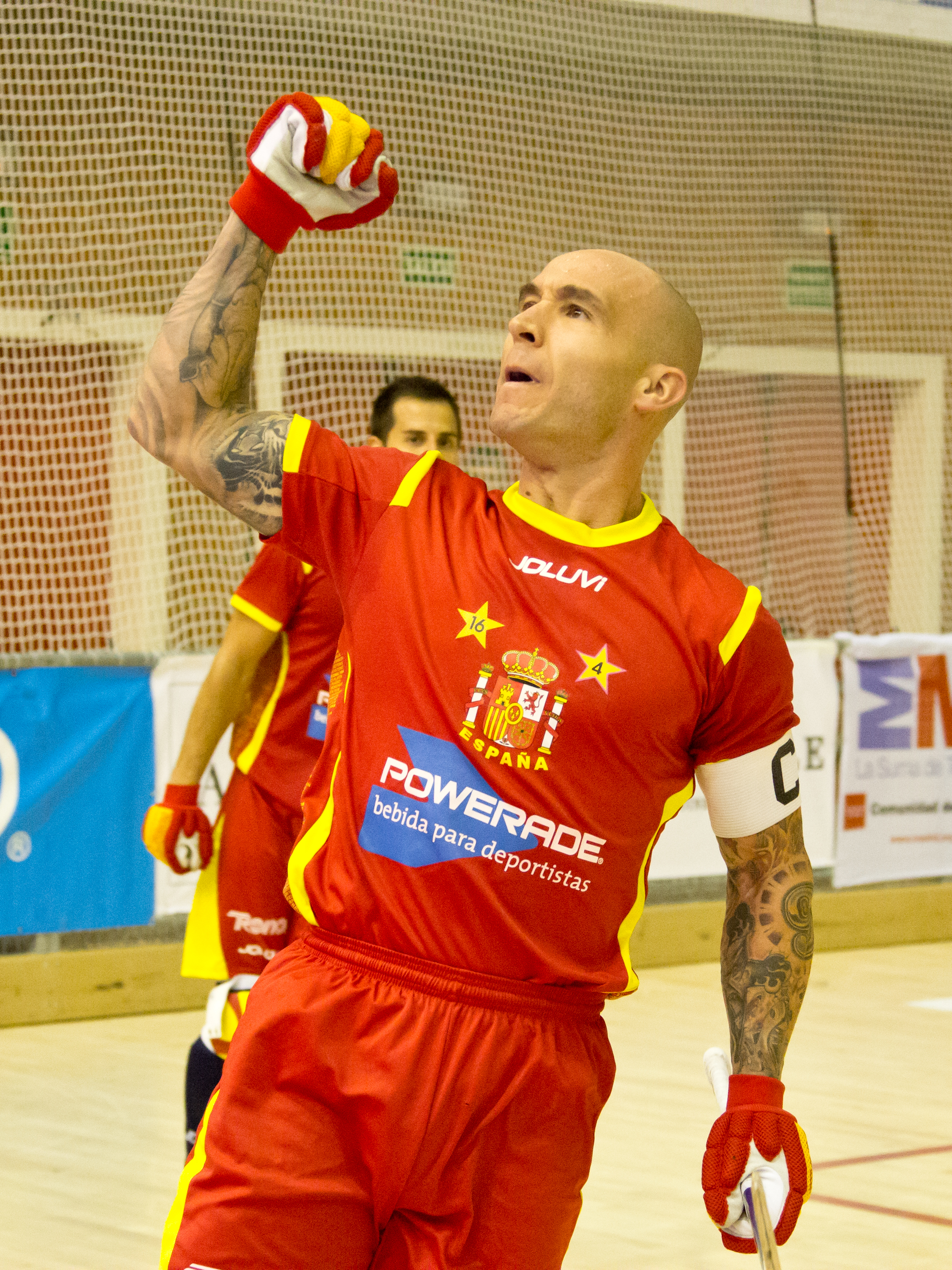 Pedro Gil playing for the Spain national roller hockey team at the 2014 CERH Championship.